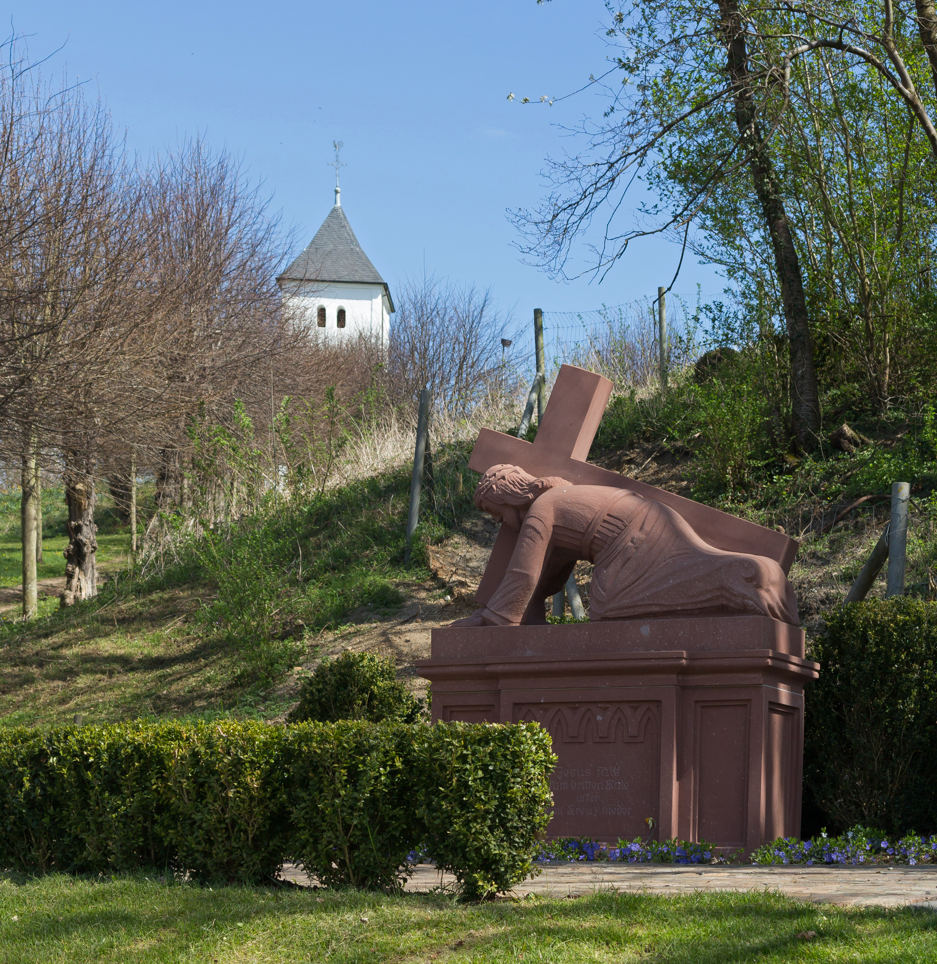 Weilerswist, tower: der Swister TurmThis is a photograph of an architectural monument., no. 91